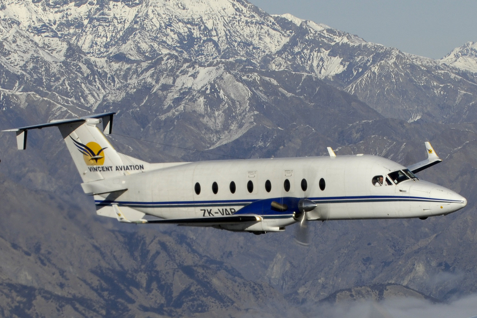 Vincent Aviation De Havilland Dash 8-100 (ZK-VAC) and Beechcraft 1900D (ZK-VAB) over New Zealand's South Island.